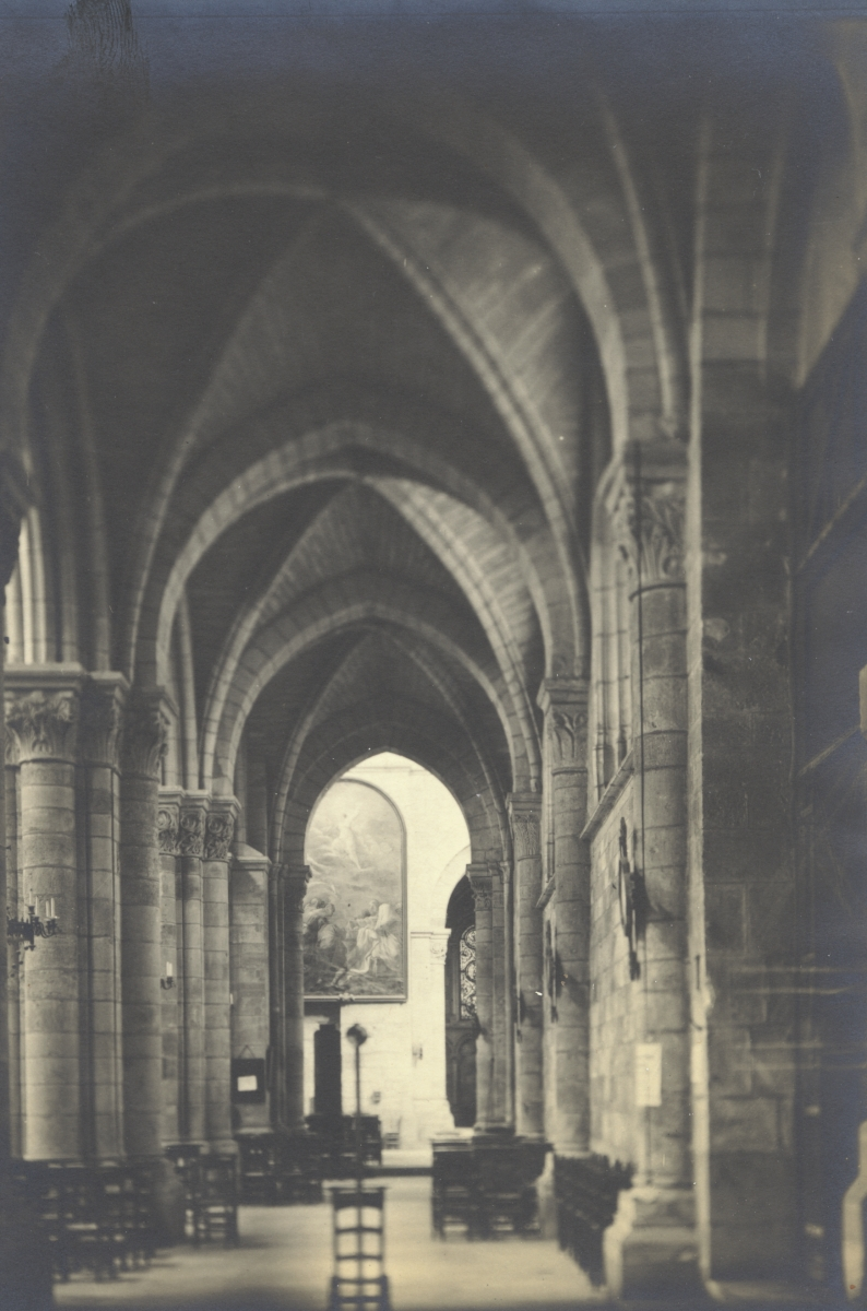 Church of Notre Dame en Vaux, Chalons sur Marne, France, 1903. No number. Right aisle? Brooklyn Museum Archives, Goodyear Archival Collection (S03_06_01_003 image 788). Help us map this image by using Suggestify to suggest a location for it.